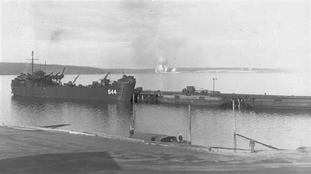 United States Navy tank landing ship USS LST-544 at United States Naval Magazine, Indian Island, Washington, with smoke from Port Townsend, Washington, paper mill in the bacjground.